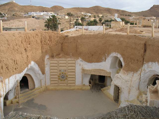 The Hotel Sidi Driss, a traditional Berber troglodyte underground building in the village of Matmata, Tunisia. The hotel served as the home of Luke Skywalker on the planet Tatooine in the Star Wars movies. Note the remainining set pieces incorporated into the walls.